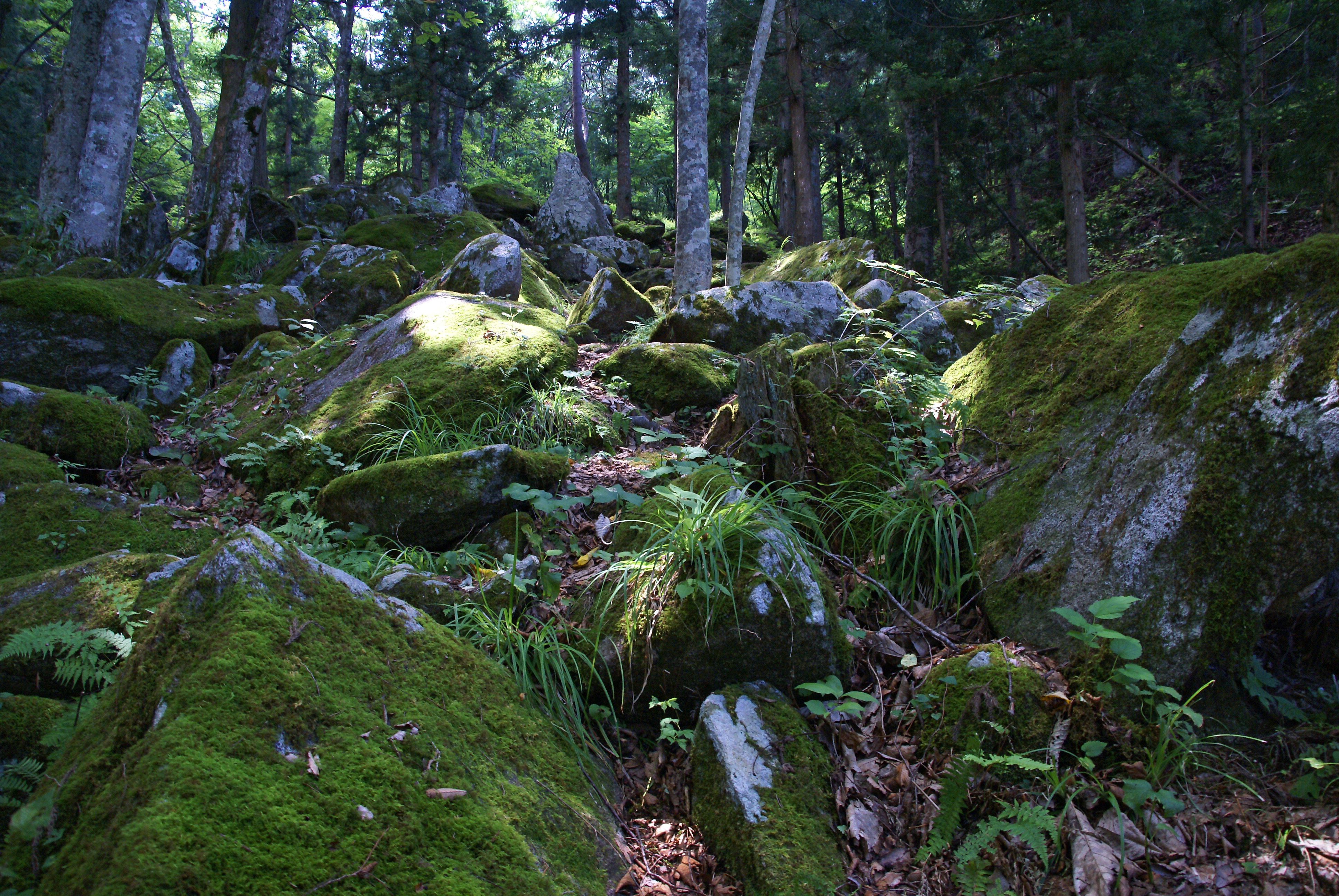 500-Rakan in Tono, Iwate prefecture, Japan